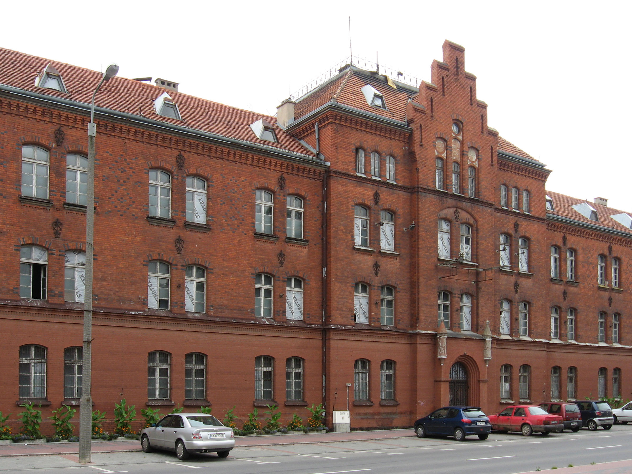 Kwidzyn, former barracks at Kościuszki Str.